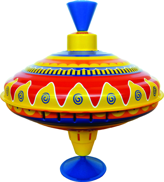 Large Tin Top with Sound. The piston can be pressed up and down so for the top to rotate itself on its base.